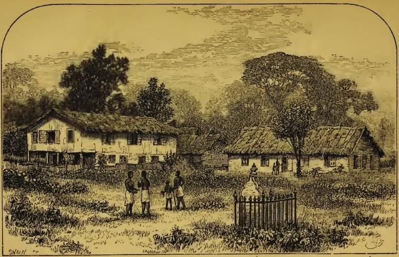 Source : Alfred Saker, Missionary to Africa : A biography 1884 by E.D. Underhill (Baptist Missionary Society